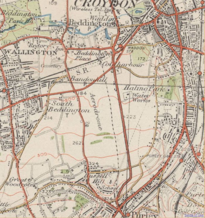 Area around Croydon Airport, England, as it was in the 1920's or 1930's